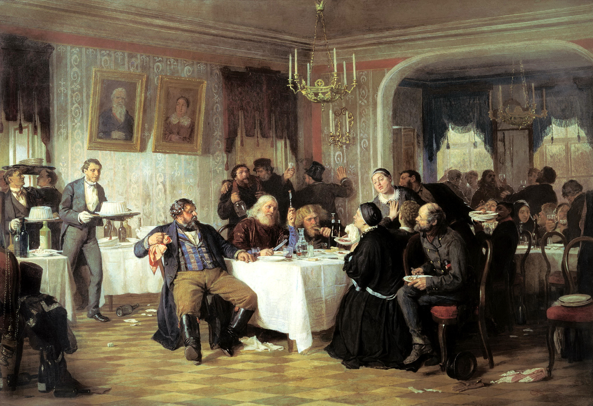 Firs Sergeyevich Zhuravlev (1836-1901) Funeral of negotiant